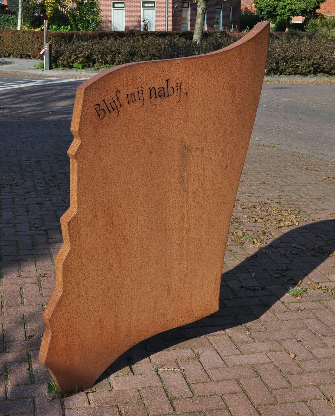 Memorial Henk Ridder (2008) by Herbert Koekkoek, Smidshouk in Thesinge (Ten Boer)/The Netherlands